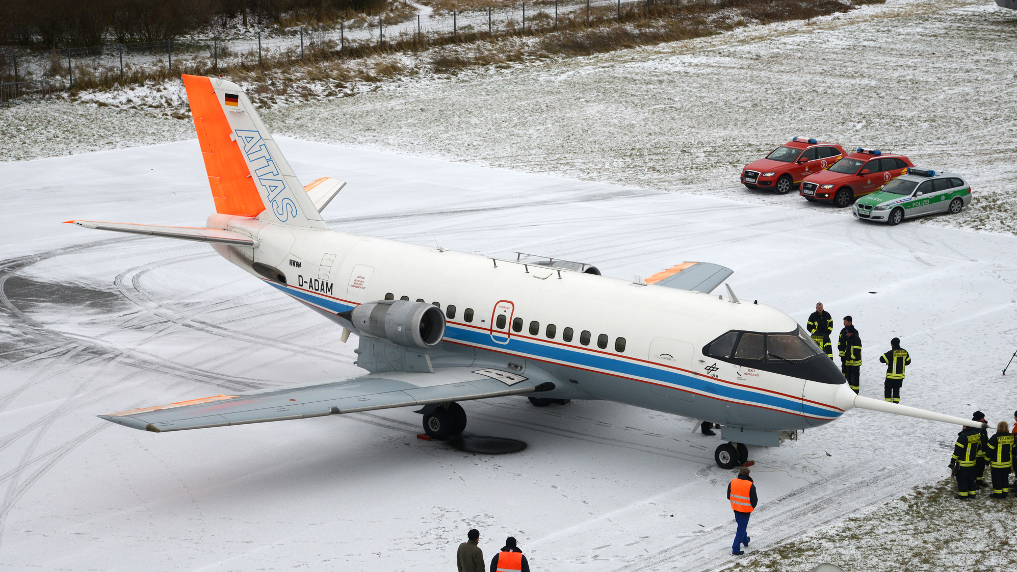 VFW 614 D-ADAM (Research airplane ATTAS of the DLR) on the apron of special airfield Schleißheim.